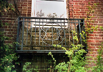 The Greek letters ΦΣΚ in a wrought iron railing on the southwest corner of the ΦΣΚ and ΦΤ residence building, built in 1928, at Dartmouth College in Hanover, New Hampshire, USA. Photograph by Kenneth Harker, 1995.